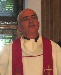 sTREIFF